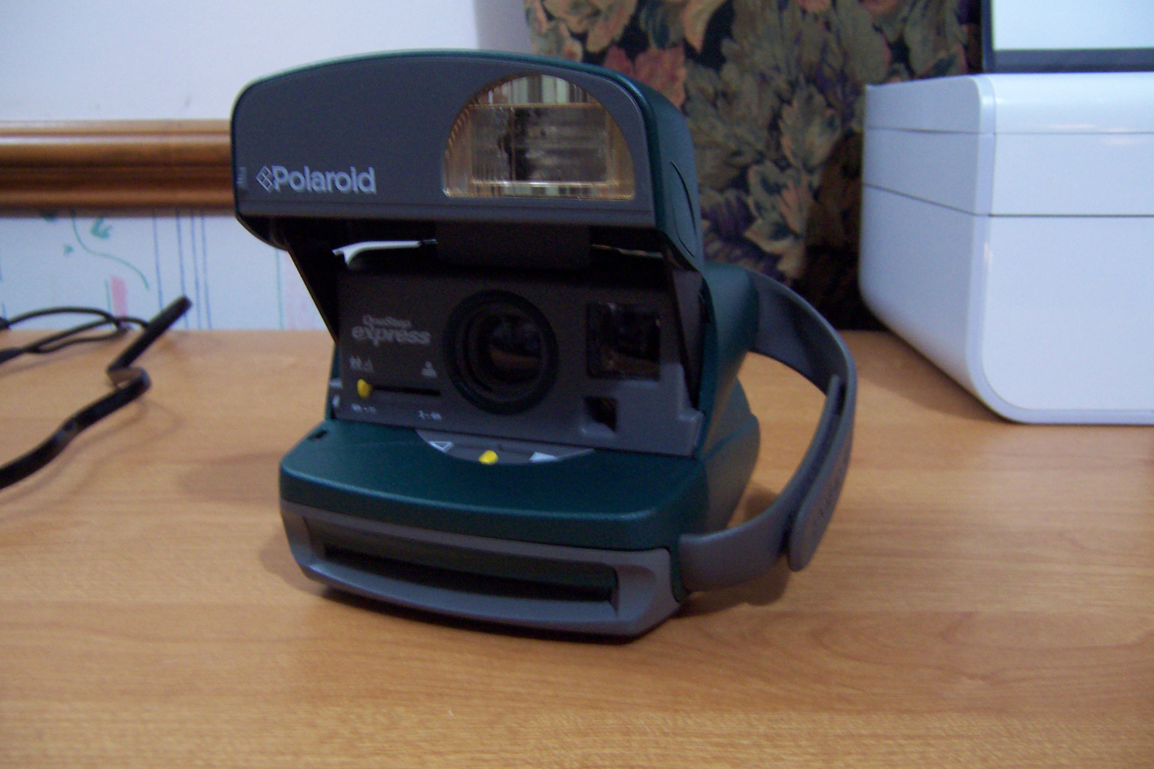 This is a Polaroid OneStep 600 Express instant camera, circa 1997-2002. This is the view of the camera turned on (flash unit pulled up). Notice: Ignore the date and time in the metadata: I did not set the clock on the camera before uploading the picture.